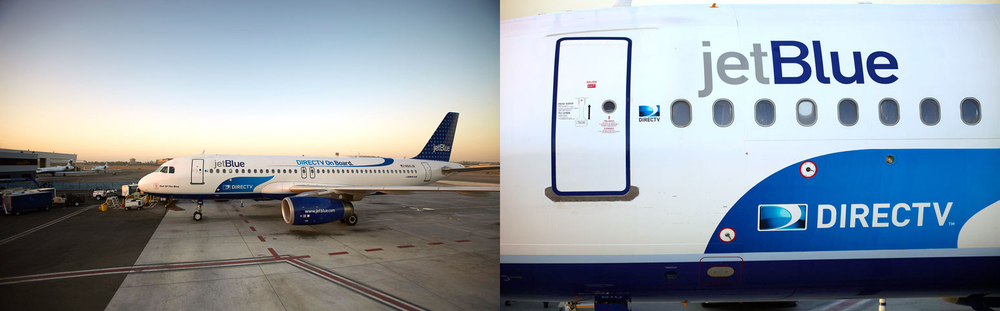 DIRECTV onboard a jetBlue plane.